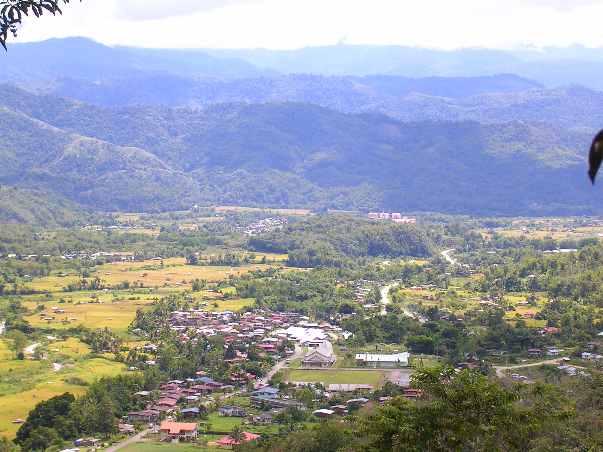 Kg. Sunsuron in Tambunan District; view from the Crocker Mountain Range Road